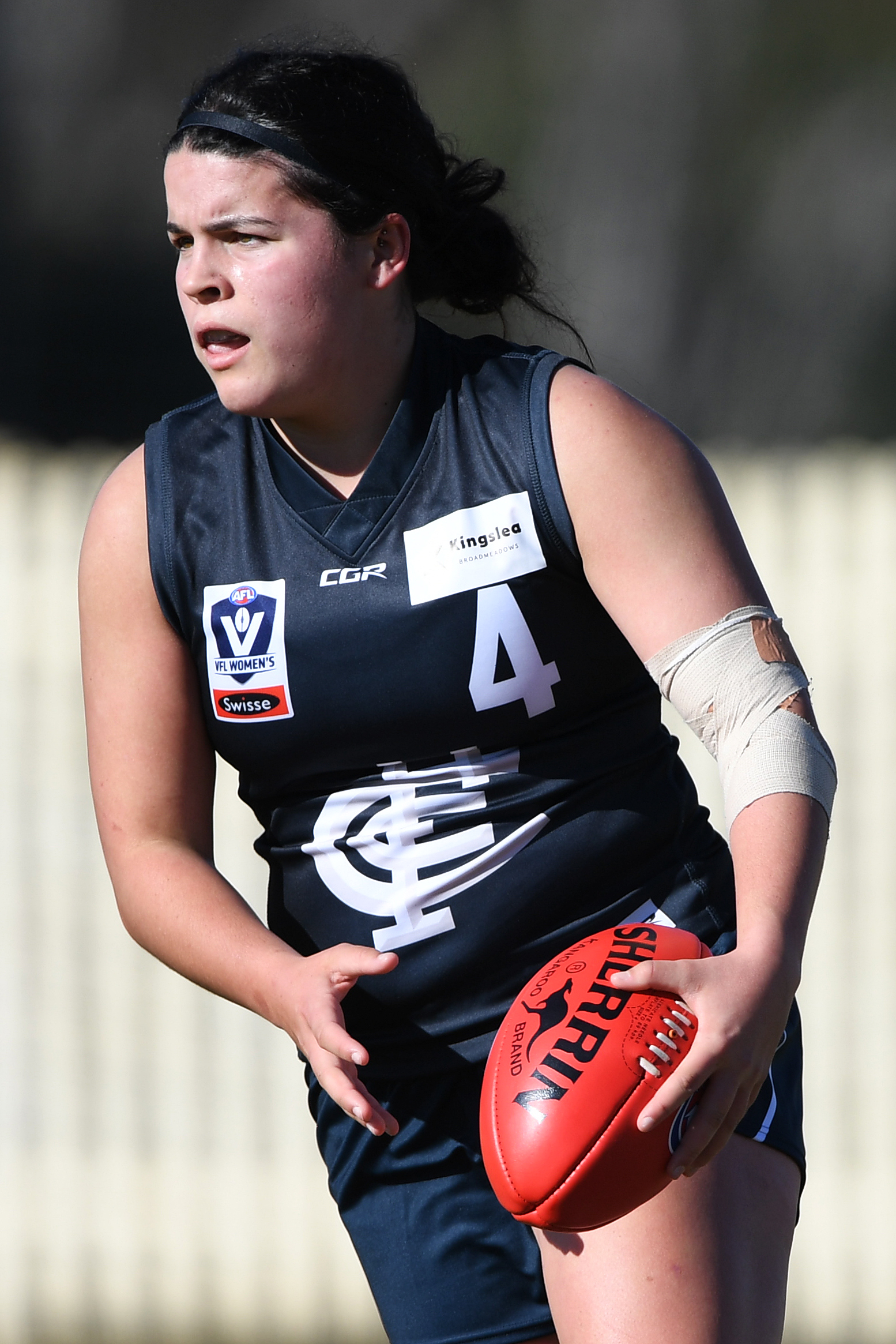 Madison Prespakis of Carlton during the 2019 VFLW round 5 match between Carlton and NT Thunder at La Trobe University on Saturday, 8 June 2019 in Melbourne, Victoria.